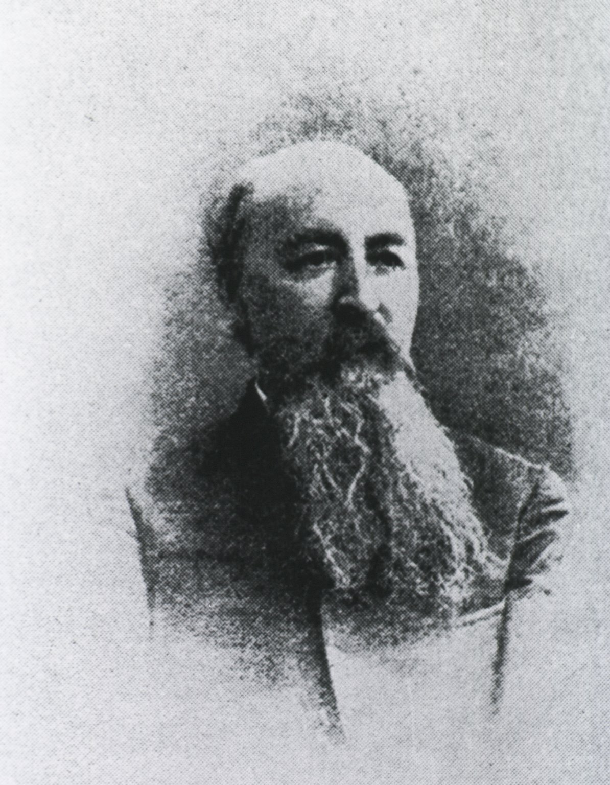 Max Mandelstamm